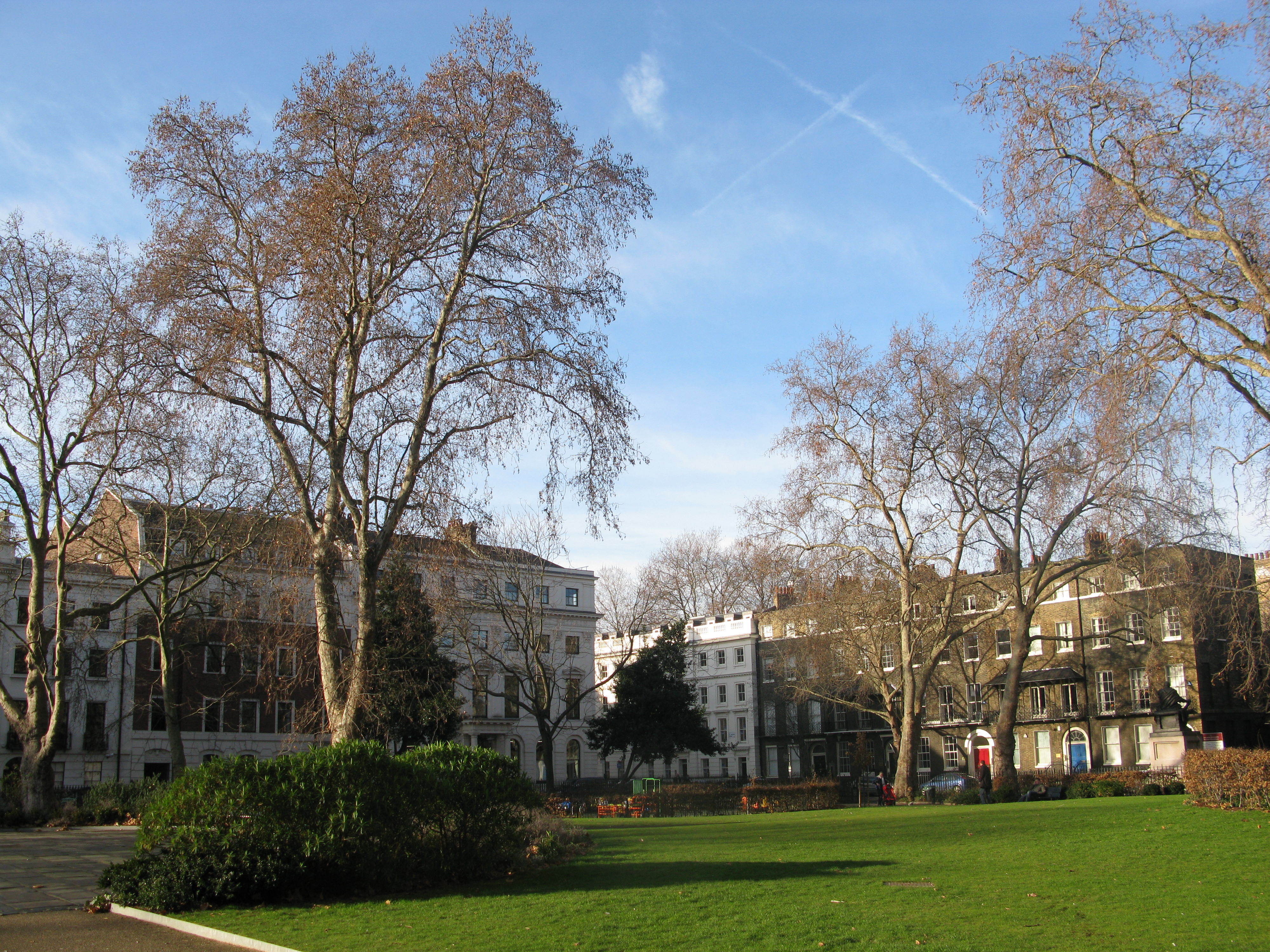 Bloomsbury Square, London, Great Britain